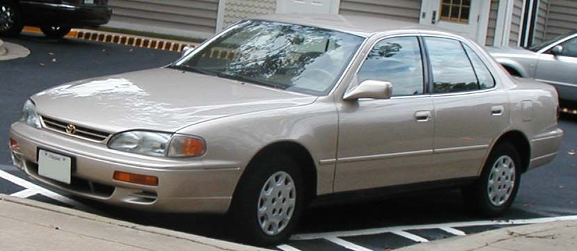 1995-1996 Toyota Camry photographed in USA.